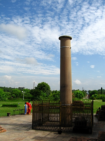 An Ashokan pillar in Lumbini, Nepal.